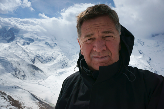 Michel Roggo at Gornergrat, working on the Gornerglacier, Valais Alps, Canton Valais/Wallis, Switzerland Photographed for The Freshwater Project